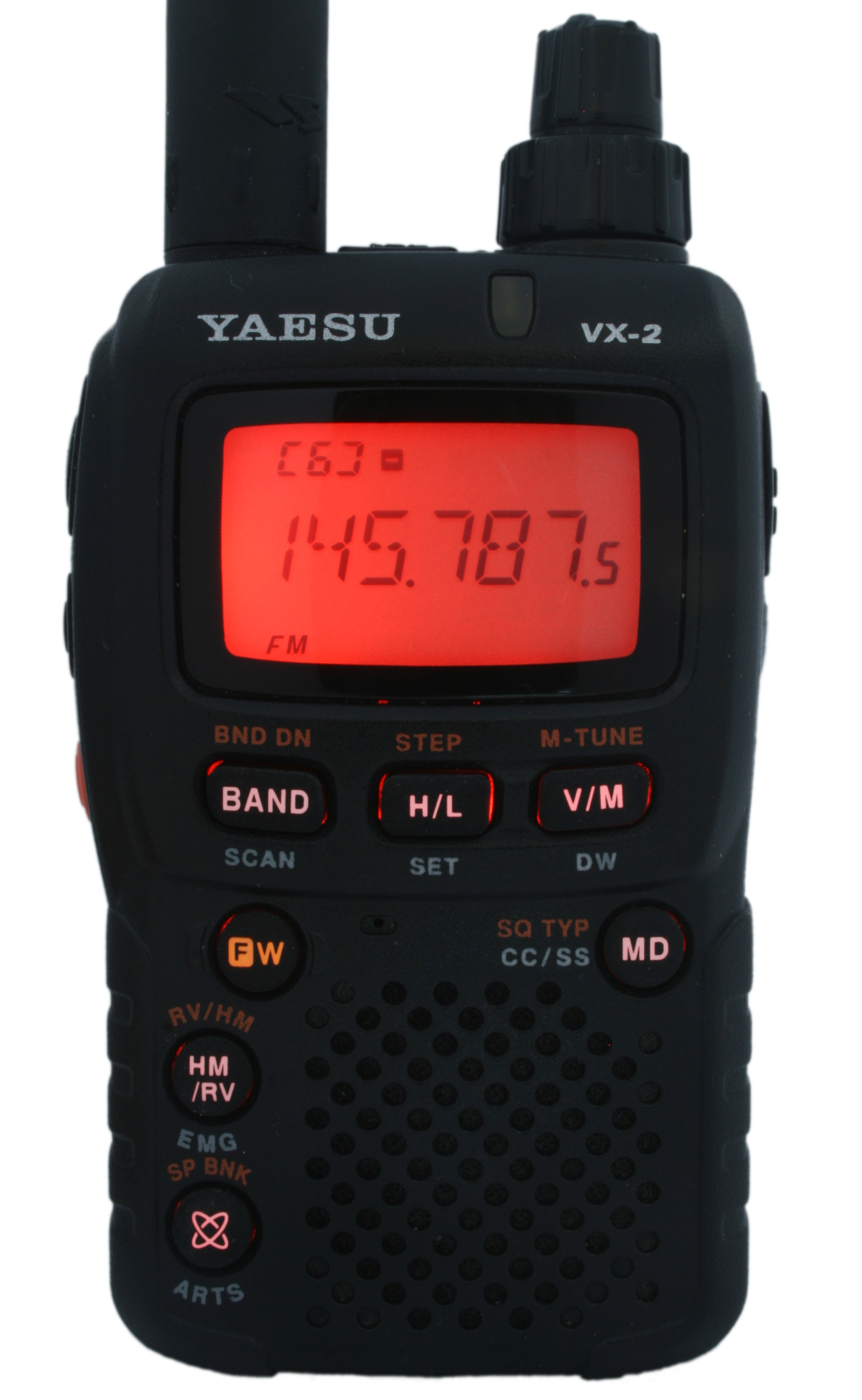 Yaesu VX-2R handheld amateur radio transceiver.